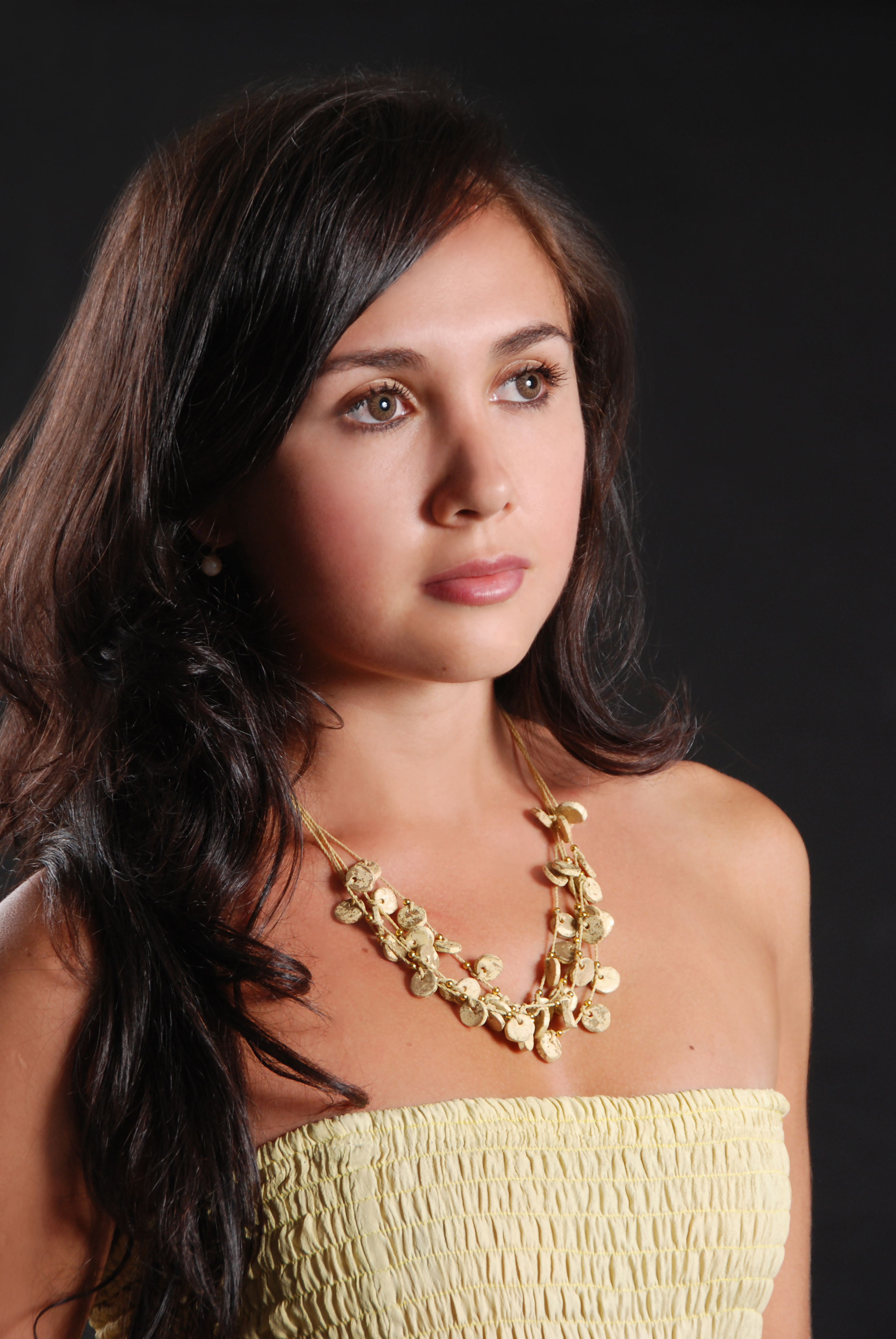 María Martínez, Miss Argentina 2008